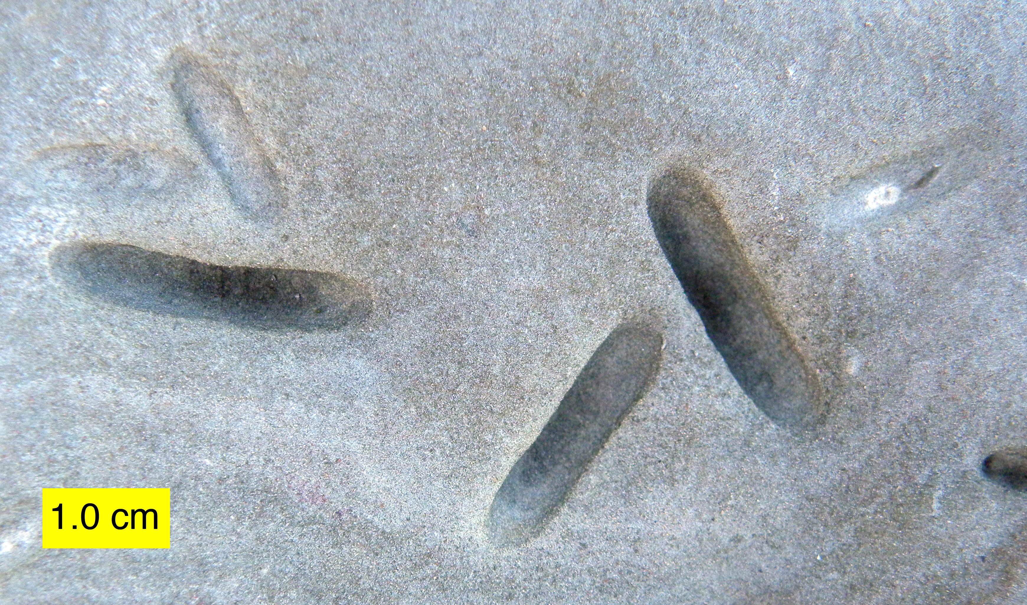 Petroxestes pera, a bivalve boring on a hardground in the Whitewater Formation (Upper Ordovician), Caesar Creek Lake emergency spillway, Ohio.